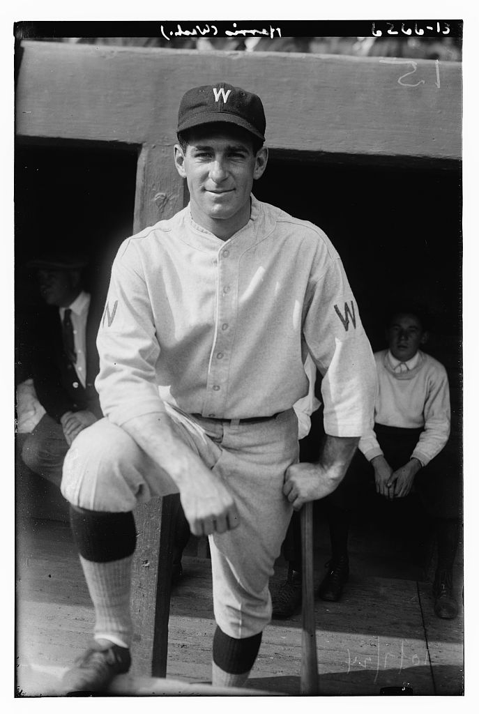 [Bucky Harris, Washington AL (baseball)]